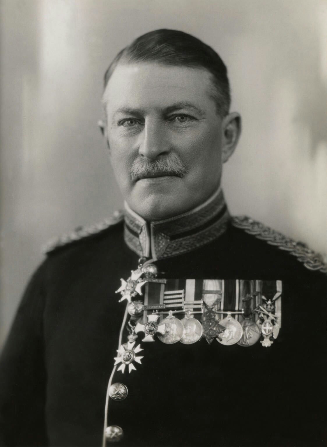 Portrait of Reginald John Thoroton Hildyard by Bassano, vintage print, 4 March 1930. Courtesy of the collection of the National Portrait Gallery, London. Crown Copyright expired (over 50 years old).